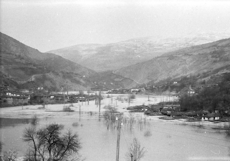 Dive of the Zavoj village during the landslide on the Visocica River